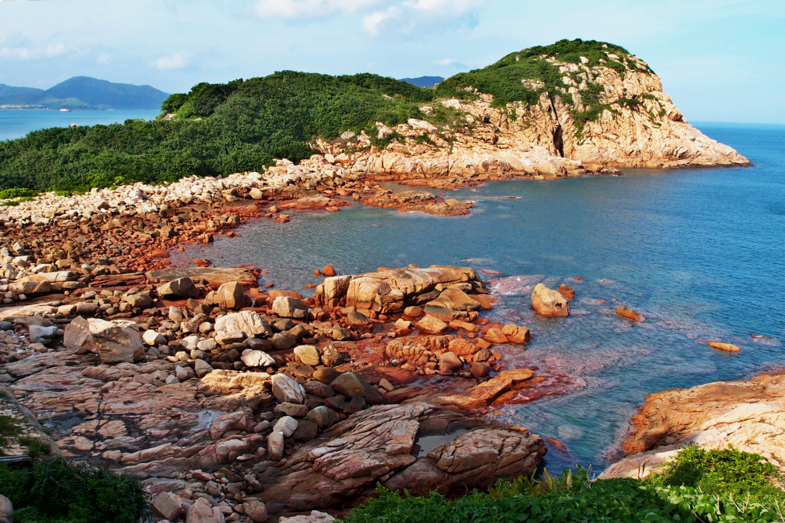 大頭洲，婚紗攝影勝地